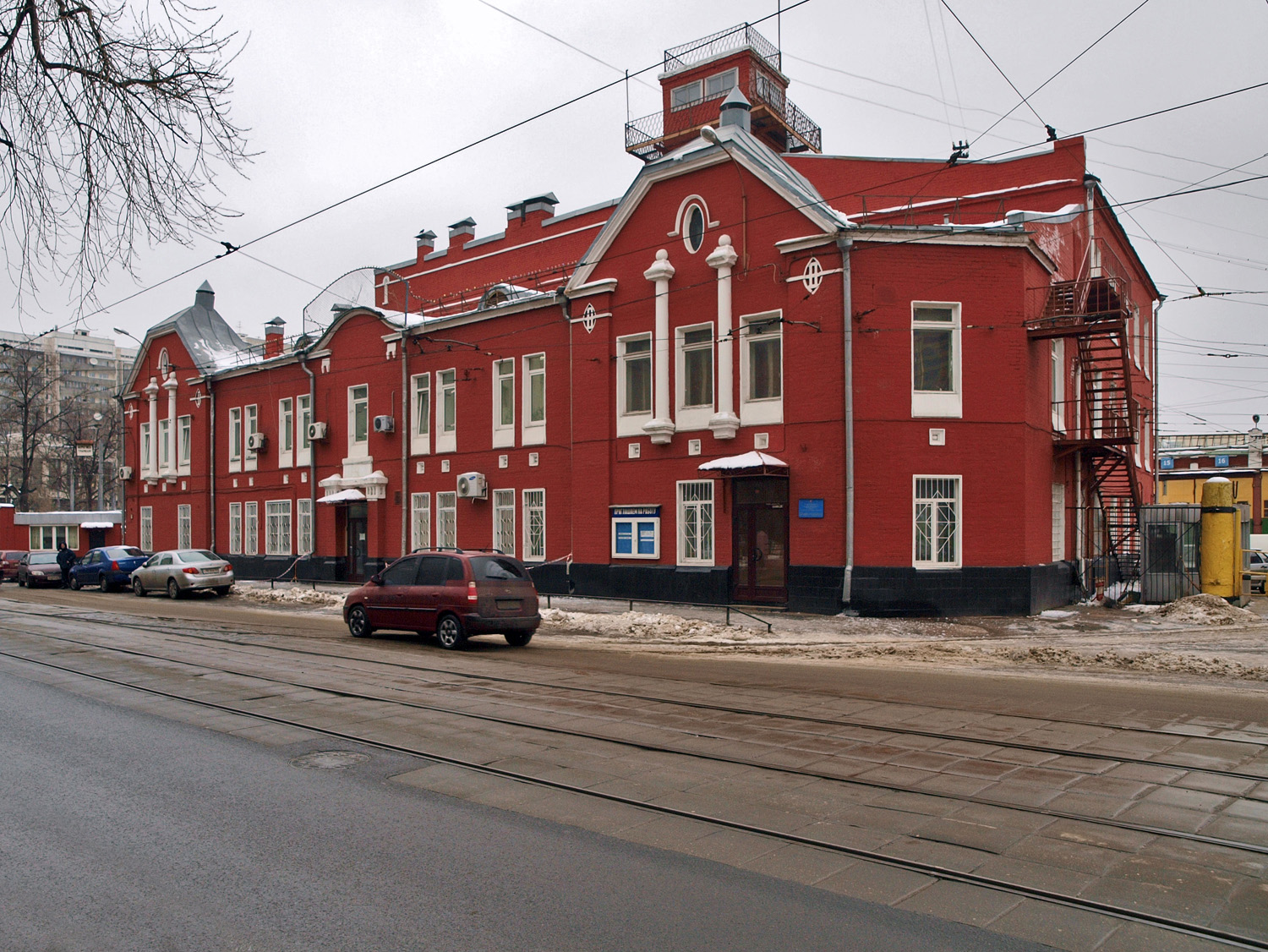 Apakov tram depot, Moscow.